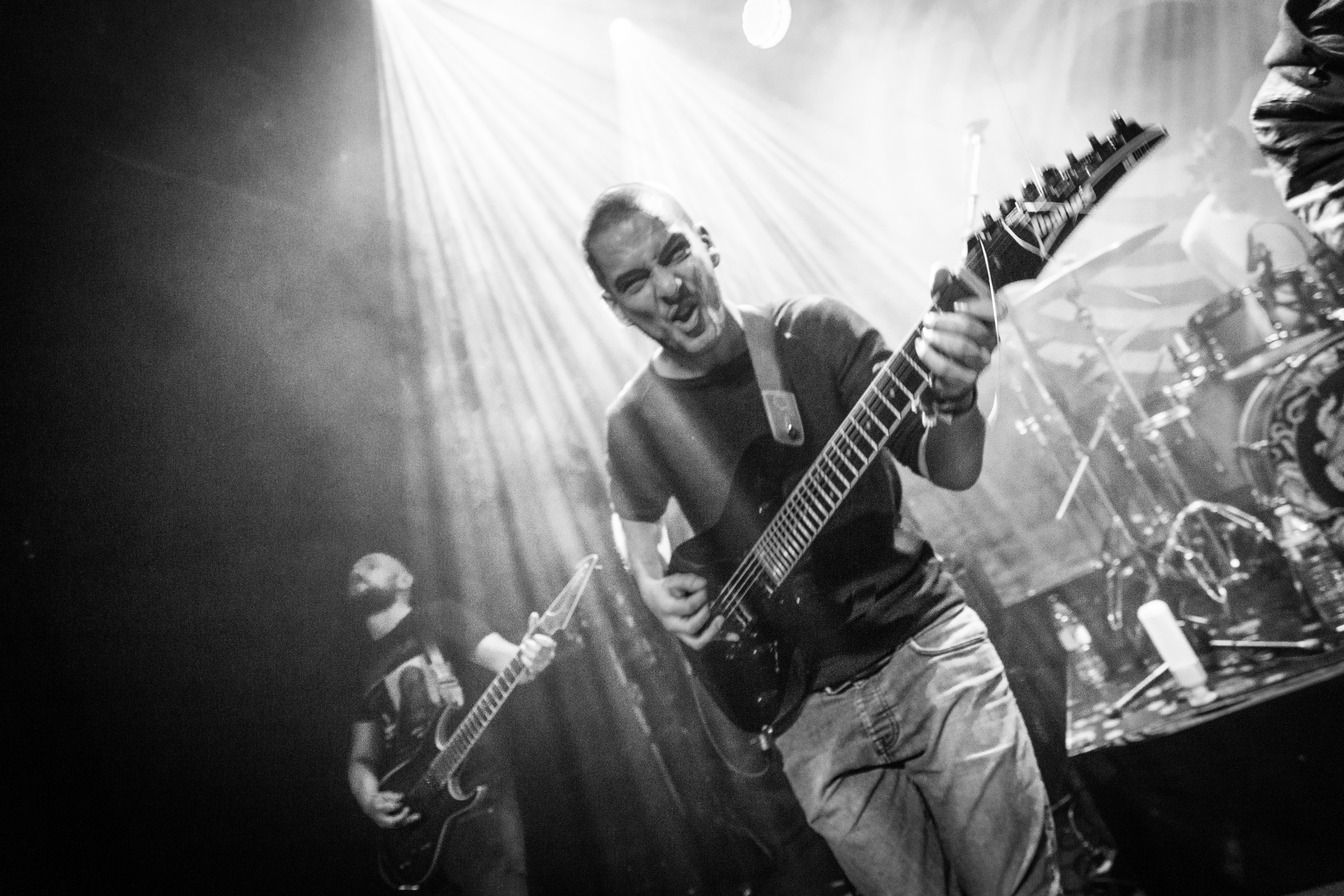 Uneven Structure live at the Complexity Fest, Haarlem 2017